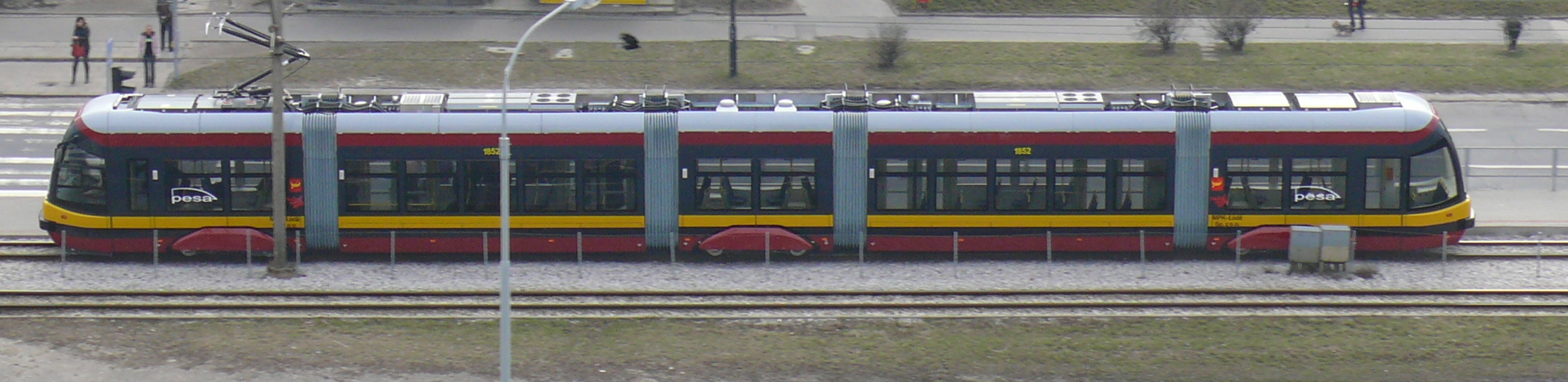 Tram PESA 122N in Łódź, Poland.